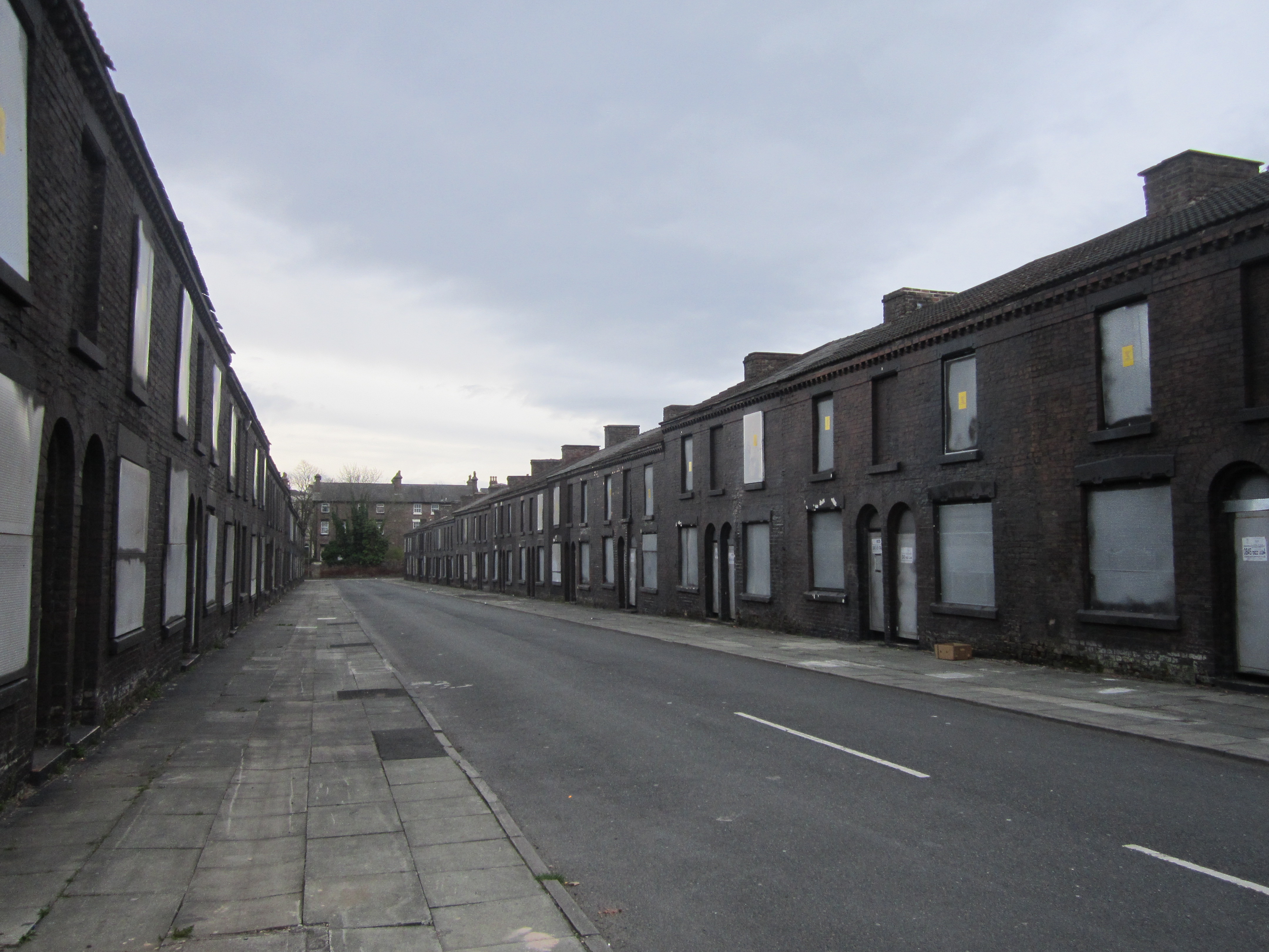 Photo taken at Toxteth, Liverpool, England.